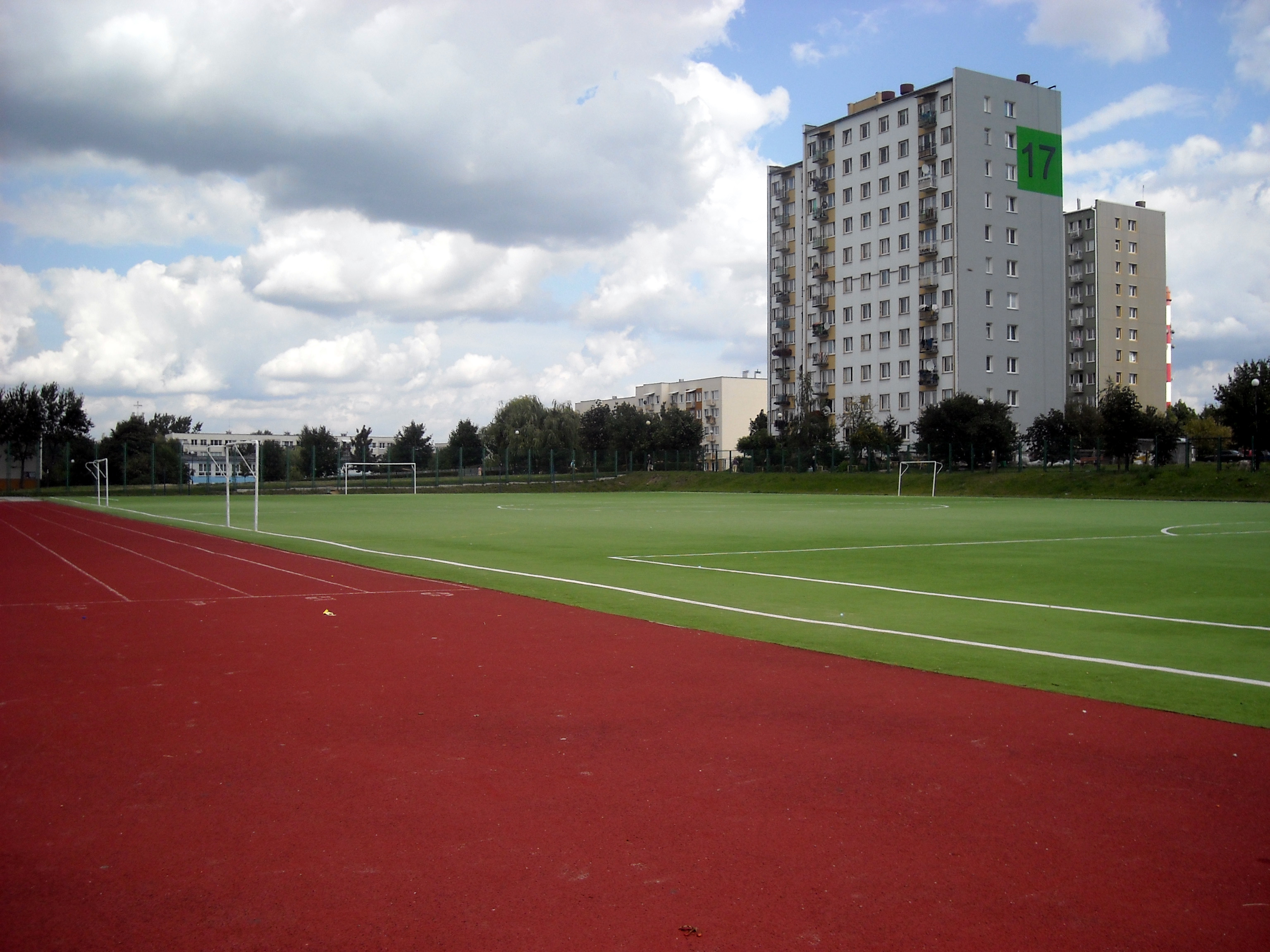 Junior high school football pitch with artificial grass in Wrotków district, Lublin